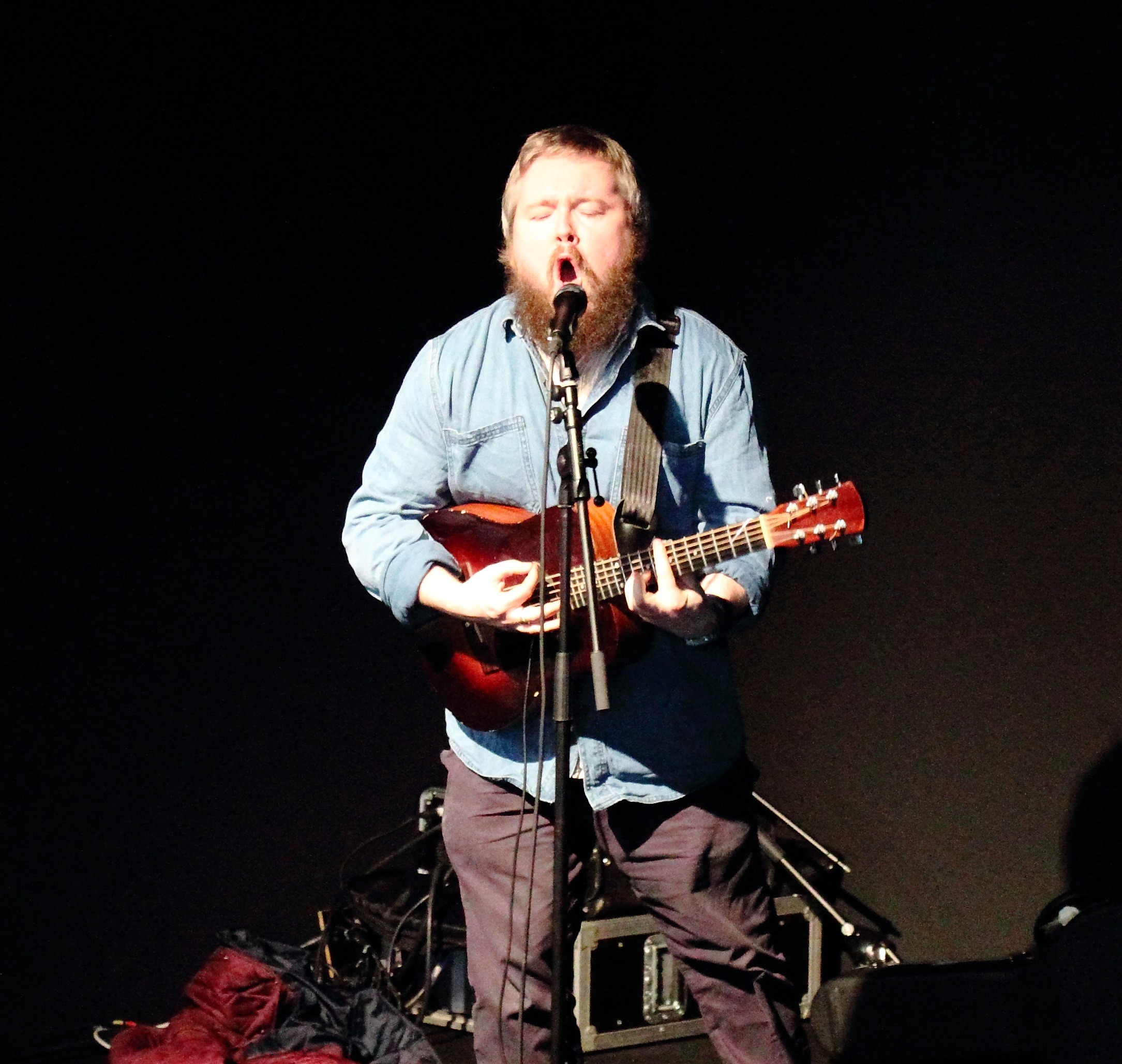 Richard Dawson performing in 2015 Concert de Richard Dawson à l'Entrepôt-galerie du Confort Moderne - Poitiers, avril 2015. Flickr Tags: Confort Moderne Poitiers Musique Music Scène Stage Live Concert Show Musicien Musician Rock Musique actuelle Folk Richard Dawson. from Flickr album "Le Confort Moderne" by Xi WEG